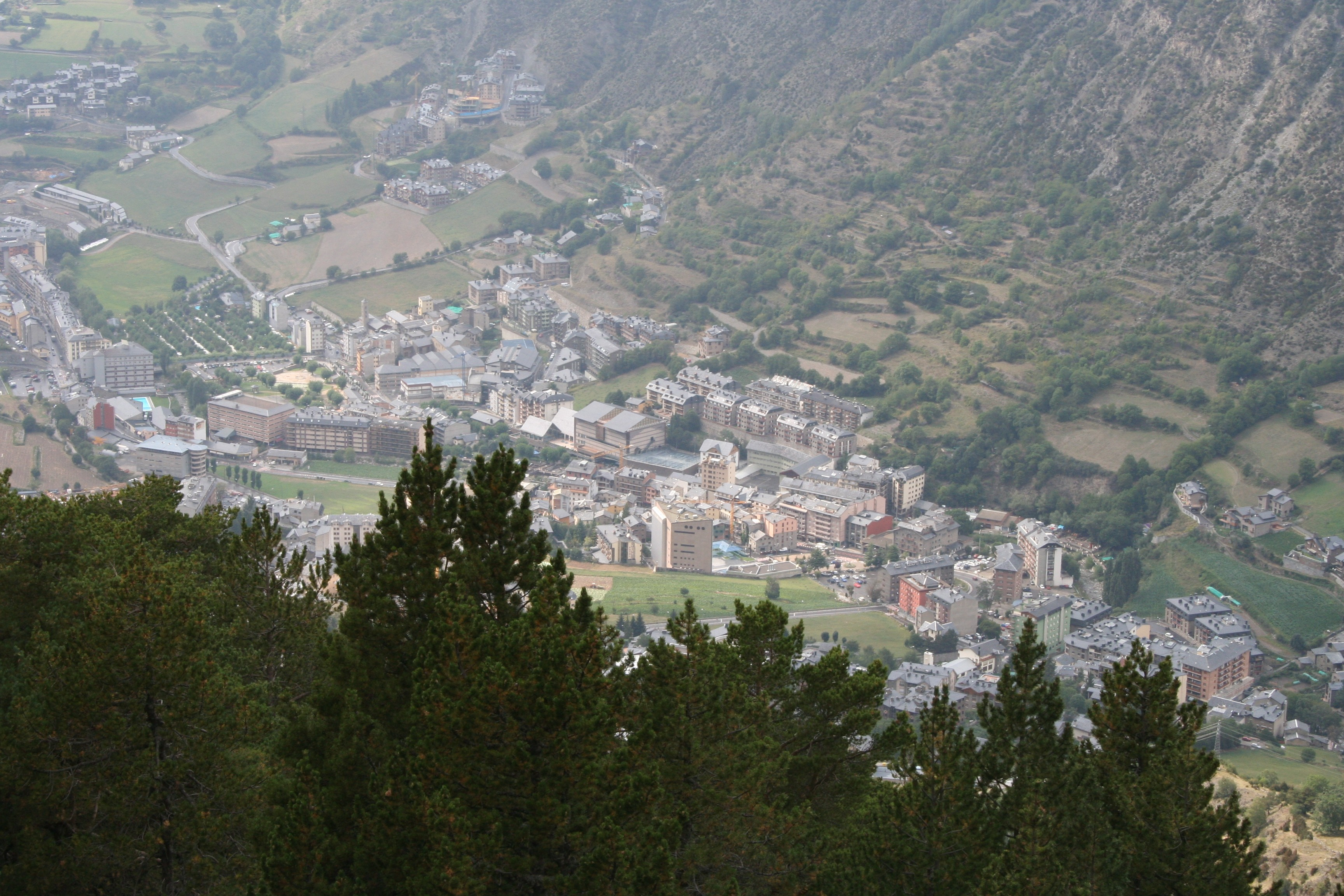 The town of Encamp, Andorra, as seen from the Vall dels Cortals